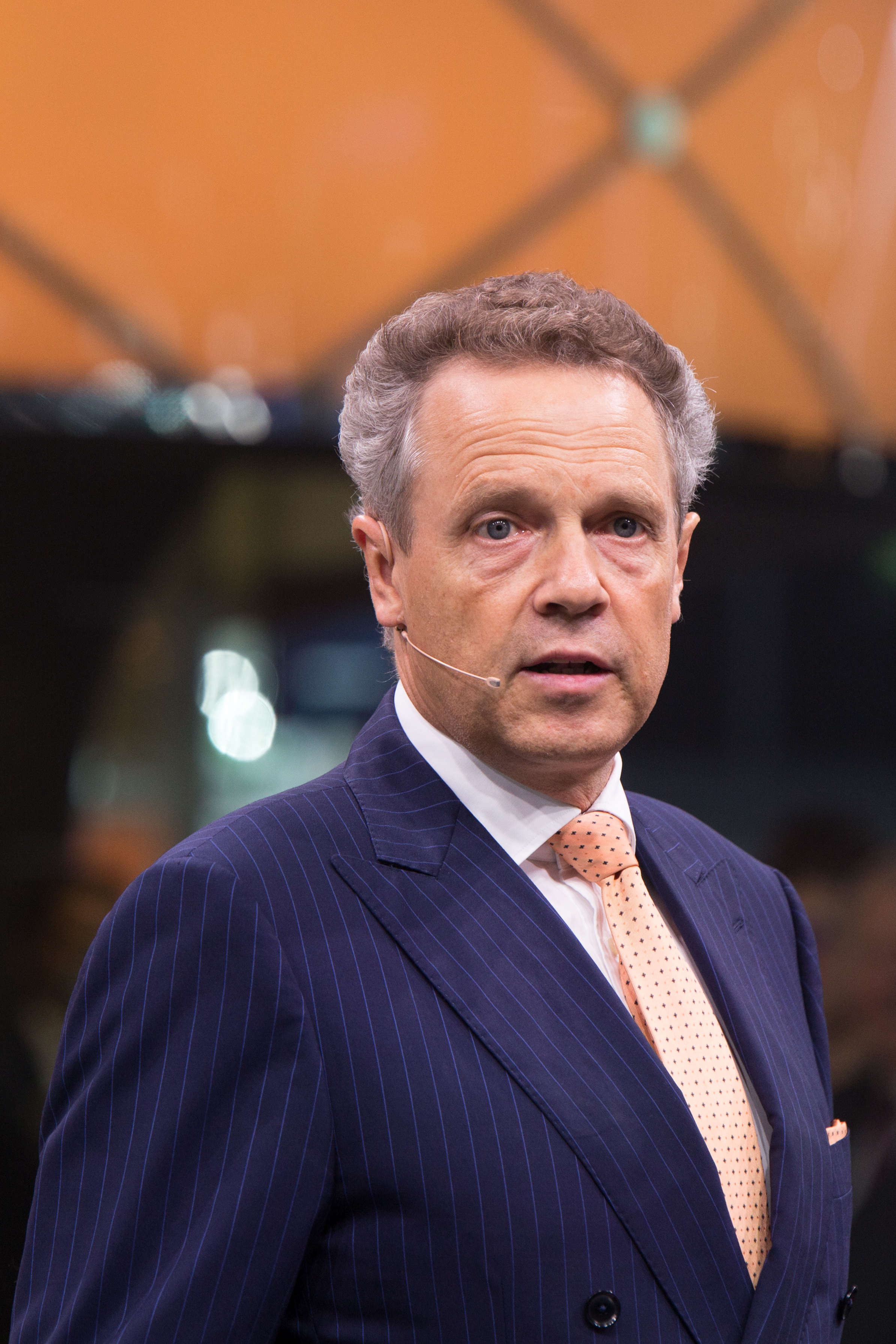 Wolfgang Dürheimer at Bentley press conference, IAA 2017